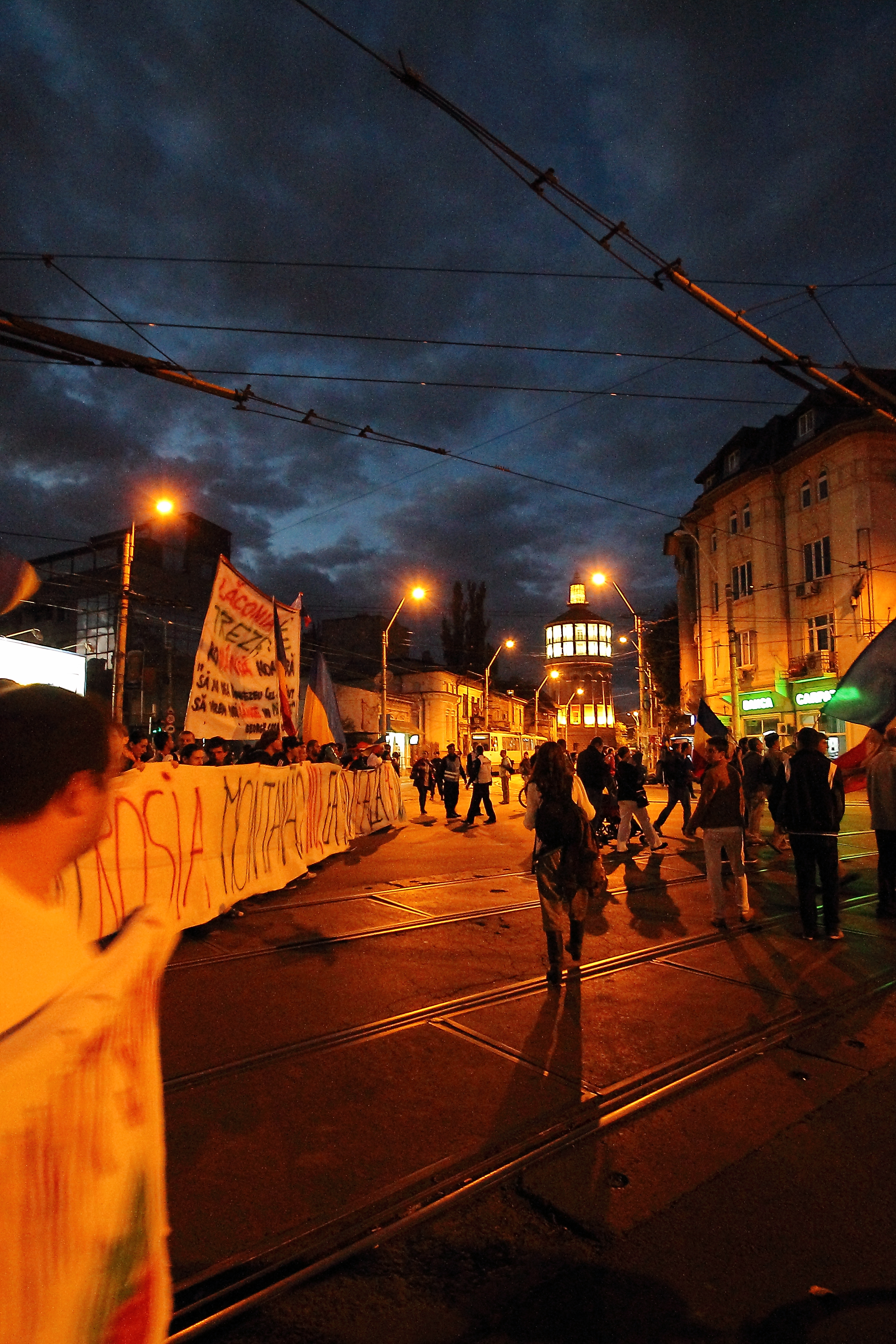 Bucharest "Foisorul de Foc" Building